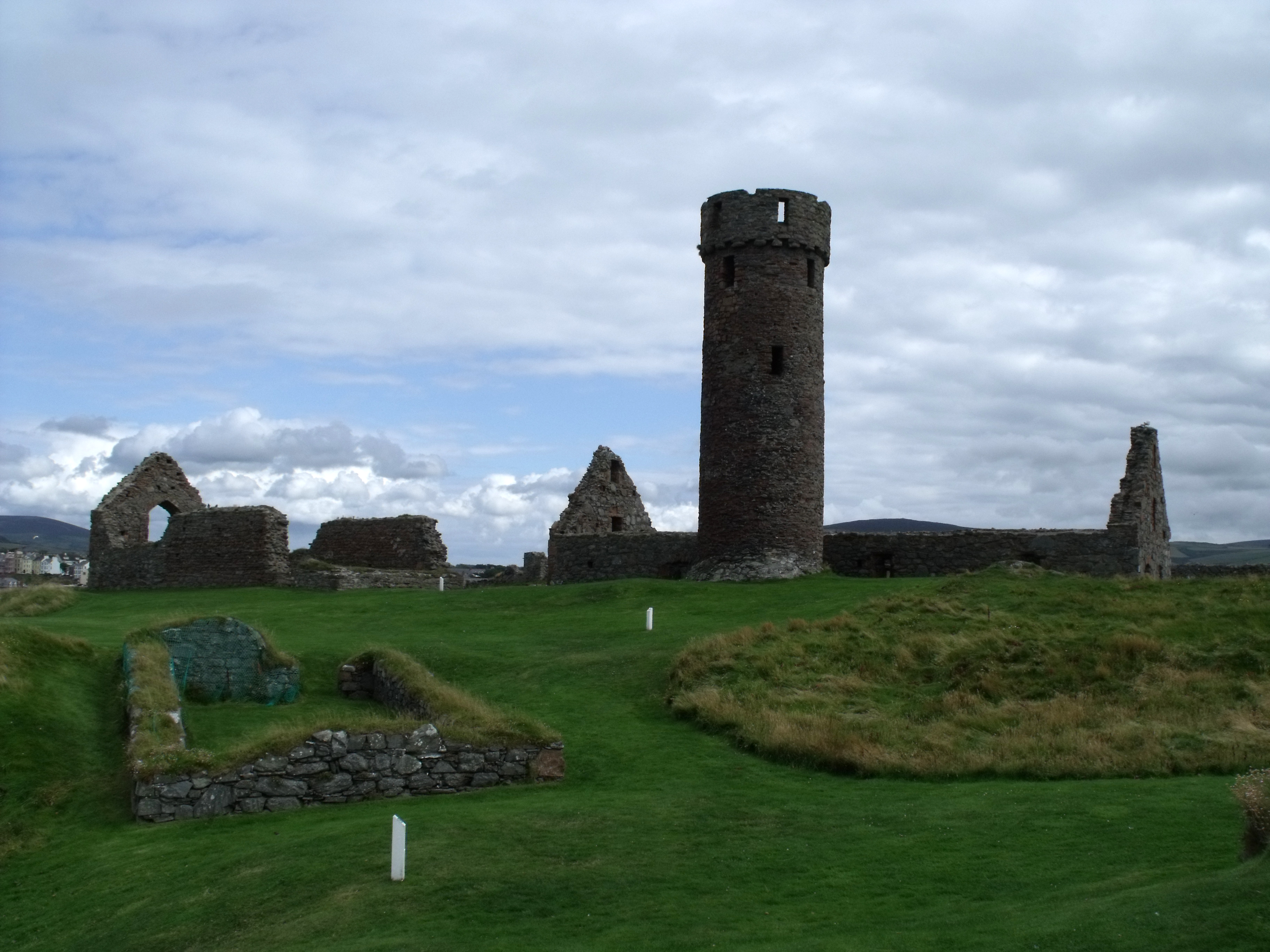 General view of Peel Castle site. IOM.